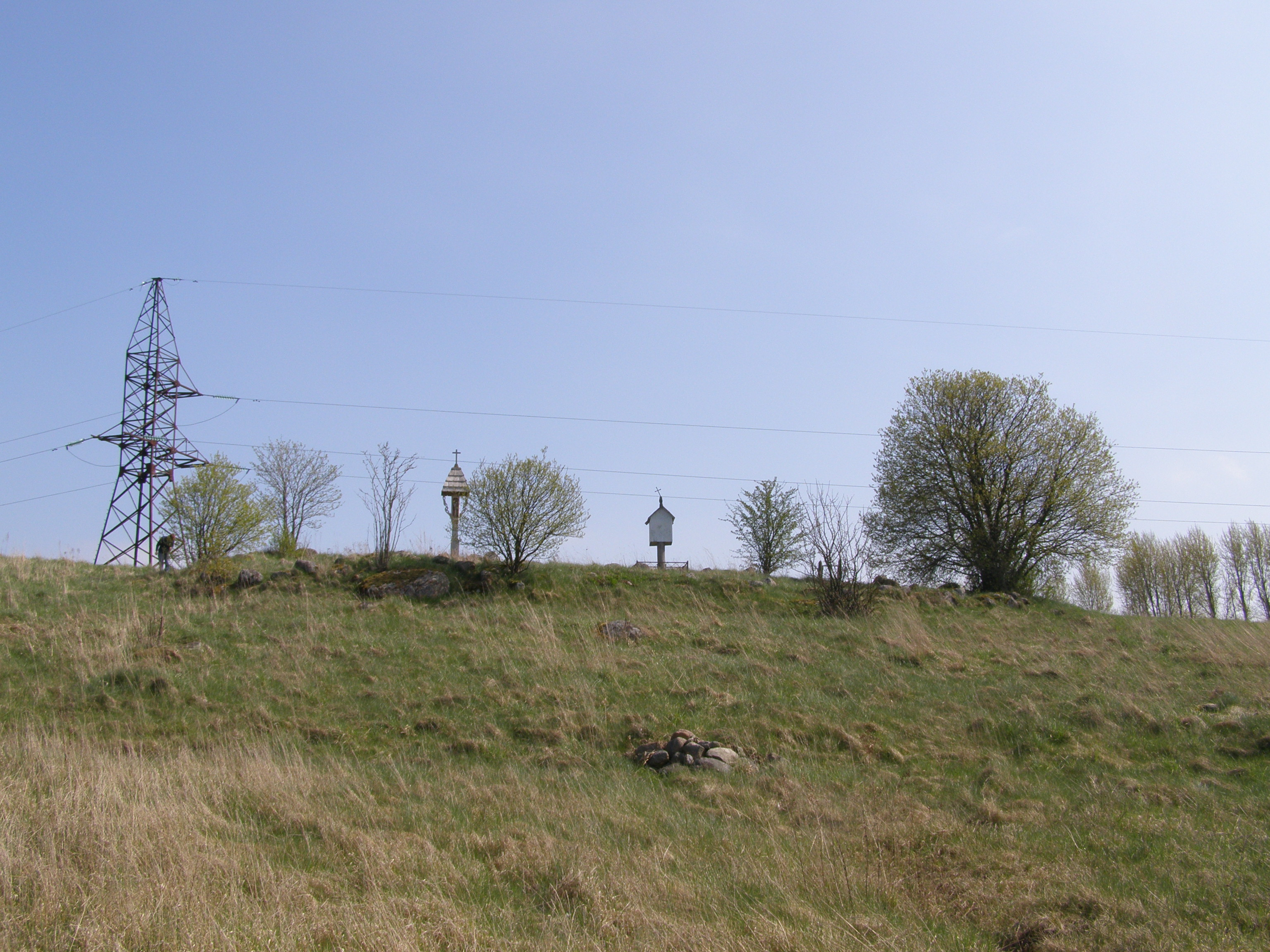 Senoji Įpiltis cemetery, Kretinga district, Lithuania